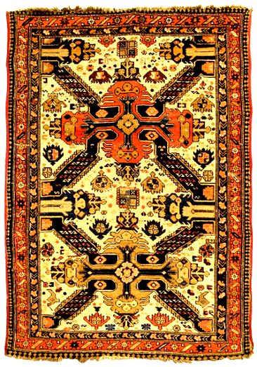 Qollu carpet, Quba group of Azerbaijani carpets.